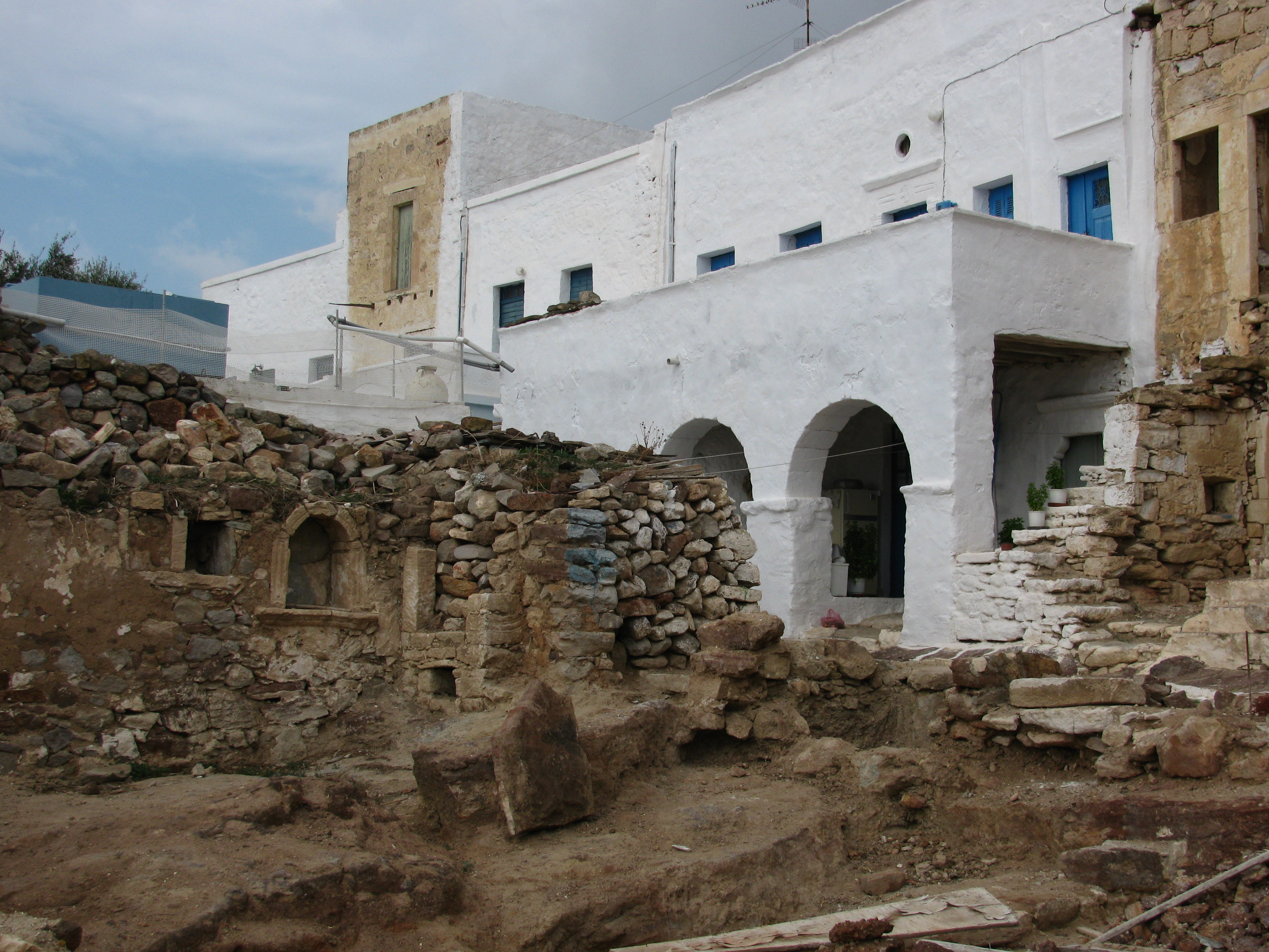 Kimolos, ruins of the Castle in the middle of the Chora